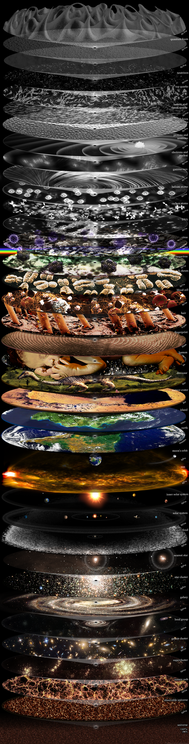 Objects of sizes in different order of magnitude. At 10-32m is thought to exist a foam of twisted spacetime (Quantum foam). 10-24m cross-section radius of 1 MeV neutrinos. 10-22m Top Quark, the smallest quark. 10-20m Bottom and Charm quarks. 10-18m Up and Down quarks. 10-16m Protons and Neutrons. 10-14m Electrons and nuclei. 10-12m Longest wavelength of gamma rays. 10-11m Radius of hydrogen and helium atom. 10-10m Radius of carbon atoms. 10-9m Diameter of the DNA helix. 10-8m Smallest virus (Porcine circovirus). 10-7m Largest virus (Megavirus). 10-6m X Chromosome. 10-5m Typical size of a red blood cell. 0.1mm (10-4m) Width of human hair. 10mm (10-2m) Width of an adult human finger. 1m Height of an infant human being. 10m Argentinosaurus is the biggest dinosaur discovered yet (30 to 35 meters). Human figure is for comparison. In reality humans and dinosaurs didn't live at the same time. 1km Diameter of Barringer Crater in the northern Arizona desert (1186m). 100km (105m) Jamaica Island (235km long). 10000km (107m) Diameter of planet Earth (12,742 km). 108m Moon's orbit (770,000km). 109m Diameter of the Sun (1391400km). 1011m Diameter of the inner Solar System. (600,000,000 km) 1013m Diameter of the Solar System. 1015m Outer limit of the Oort Cloud. 1016m Distance to Alpha Centauri. 1018m Messier 13 globular cluster. 1020m Diameter of the Milky Way Galaxy. 1022m Local Group of galaxies including Milky Way, M31(Andromeda), M33, SMC, LMC and smaller galaxies. 1023m Typical galaxy cluster (2 to 10 Mpc). 1024m Laniakea Supercluster of galaxies. (160 Mpc) 1025m End of Greatness ("Cosmic web" structure). 1026m Diameter of the observable universe sphere. The entire Universe is larger than 1027m and possibly infinite.